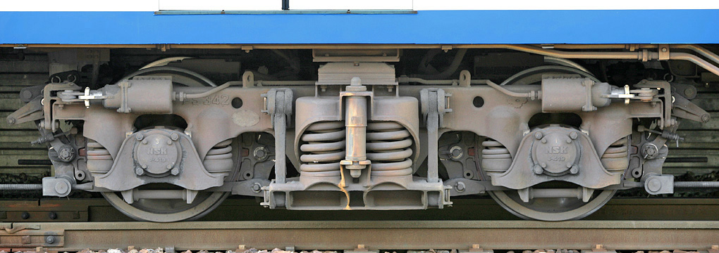 Sumitomo Metal Industries type FS-342 bogie truck of Izuhakone 1100 series EMU ( Moha 1012 )